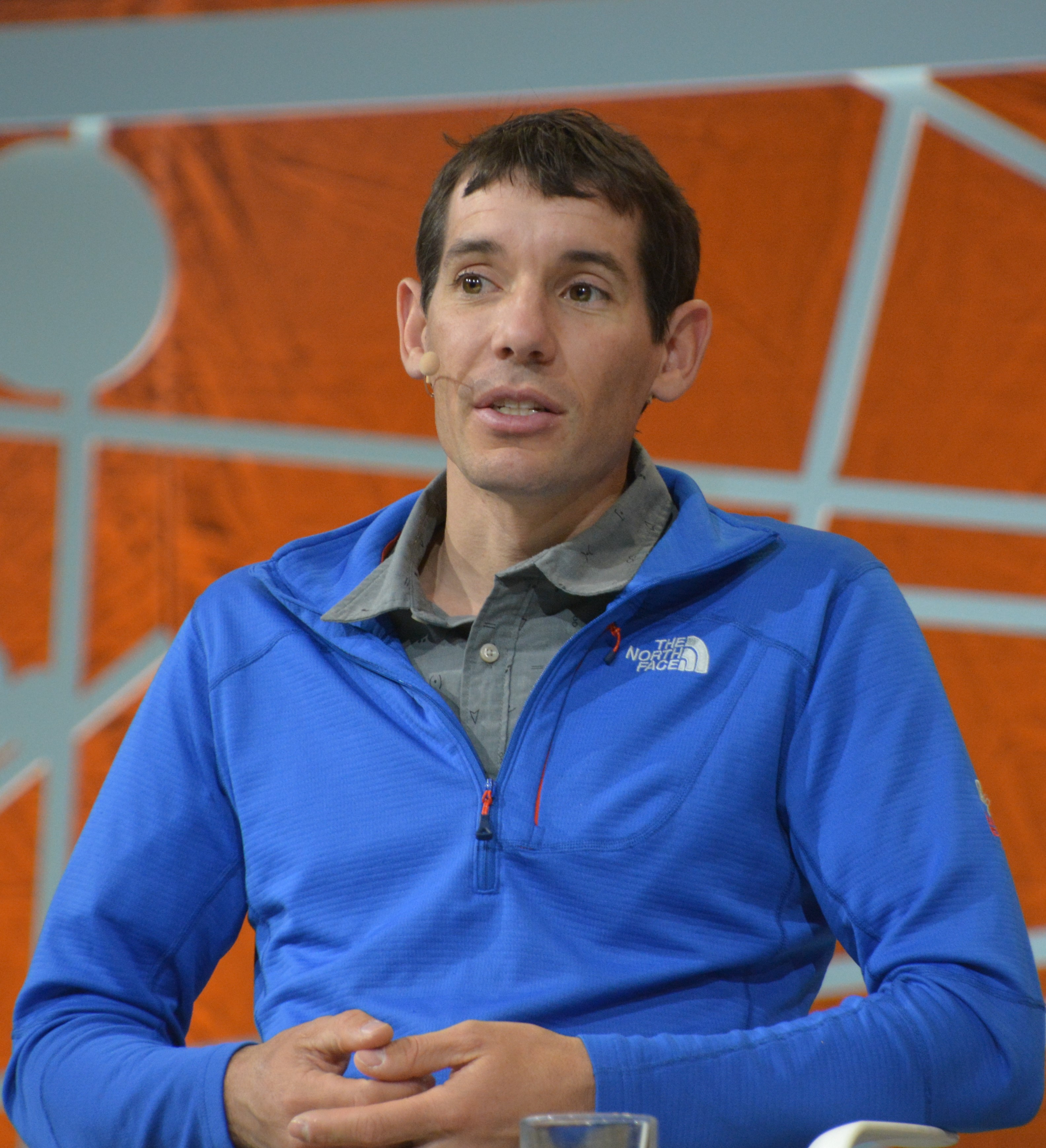 Alex Honnold at Nobel Week Dialogue in Göteborg 2019